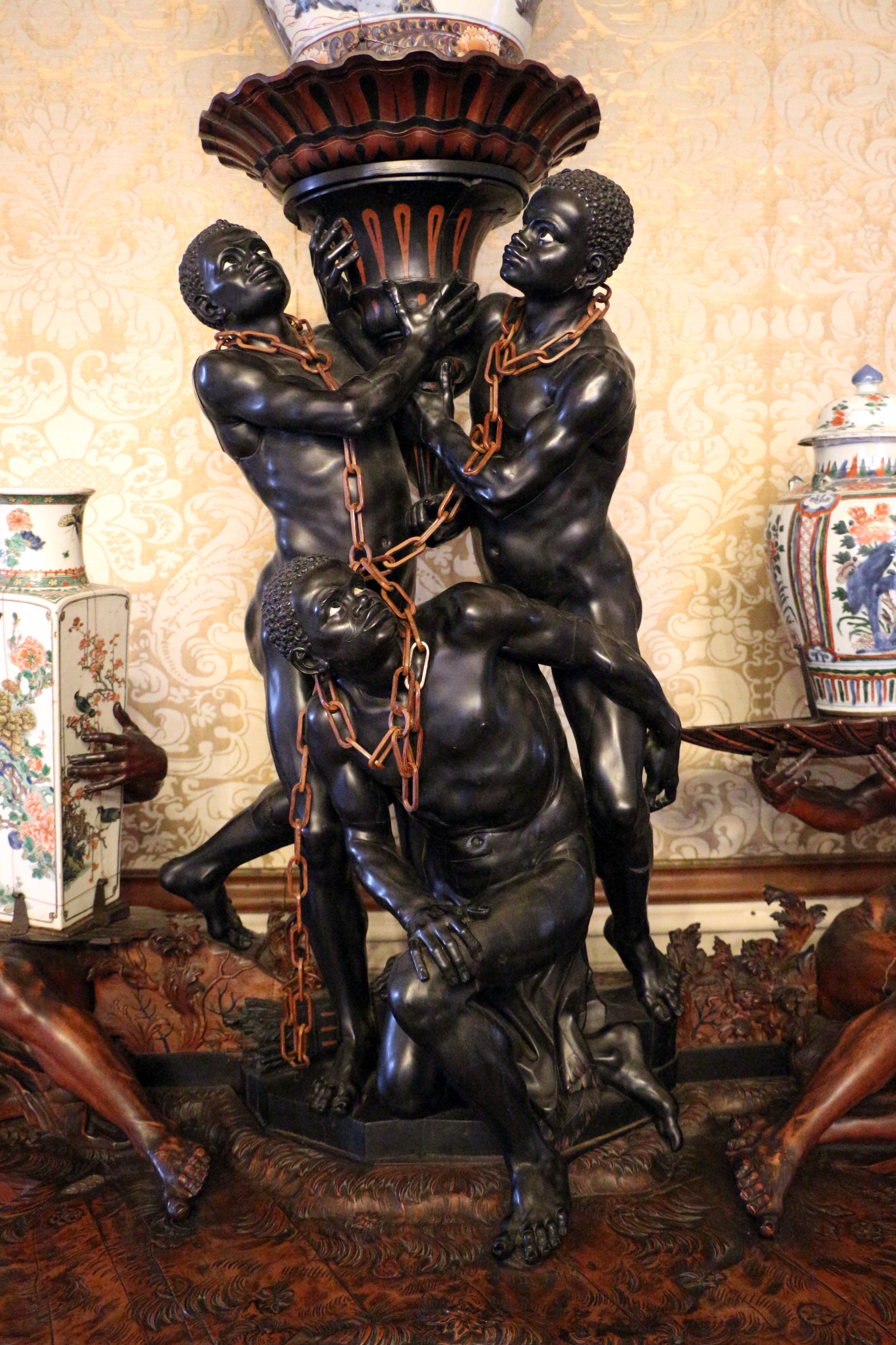 Ca' Rezzonico (Venice) - Brustolon Room